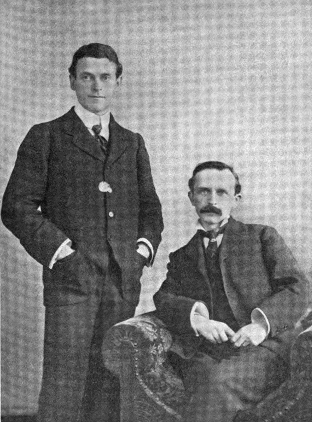 Portrait of Cyril Maude and J. M. Barrie.